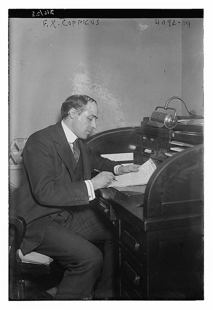 Francis Charles Coppicus (1880-1966) portrait circa 1917